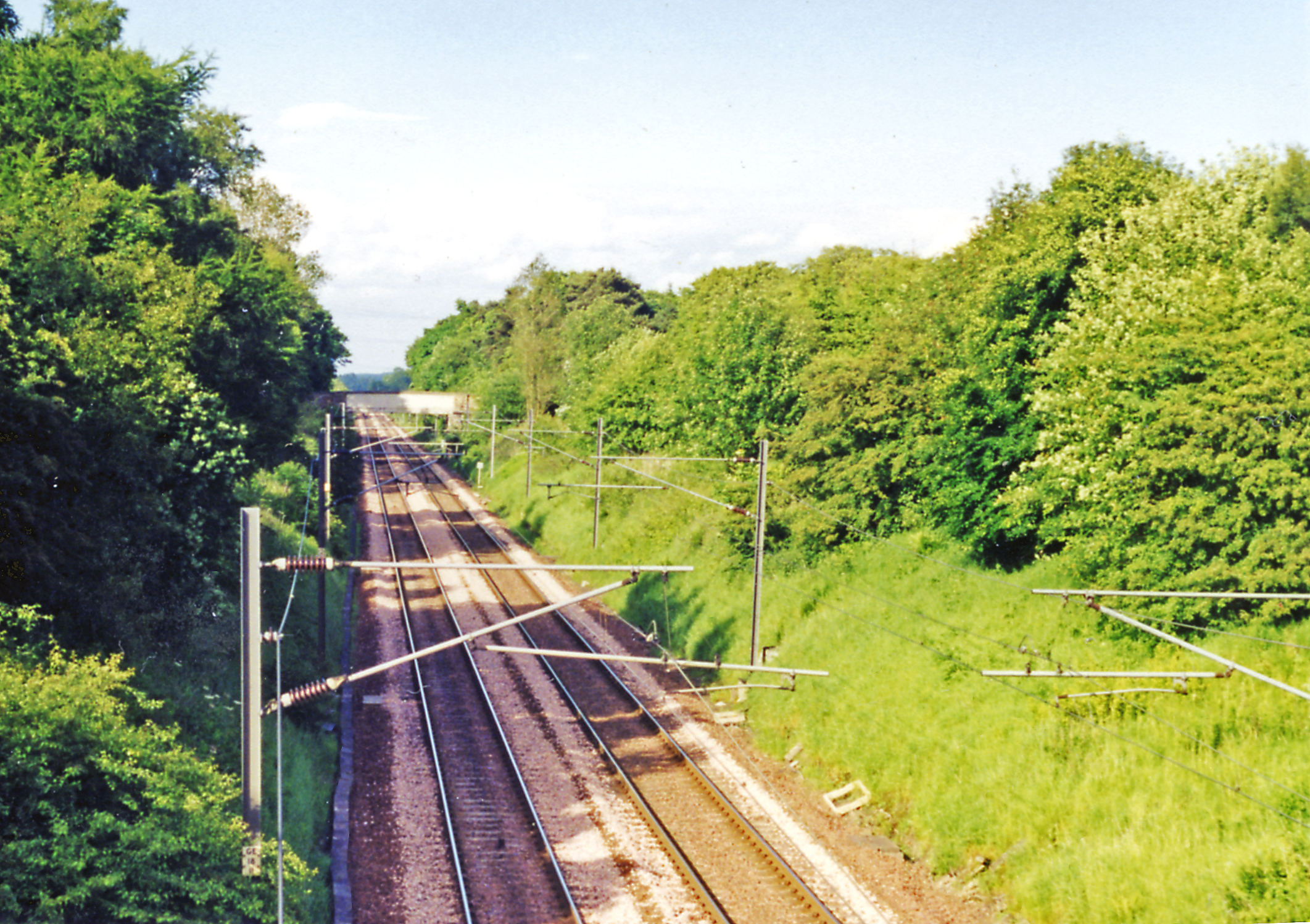 Site of Harburn station, 1998. View NE, towards Edinburgh: ex-Caledonian Railway Carstairs/Strawfrank Junction - Edinburgh main line. The station had been about 200 yards ahead and was closed 18/4/66. The line was electrified in the 1980s. Note: if the geocoords are correct, this station was in West Lothian, NOT South Lanarkshire, and the Wikipedia article is wrong.